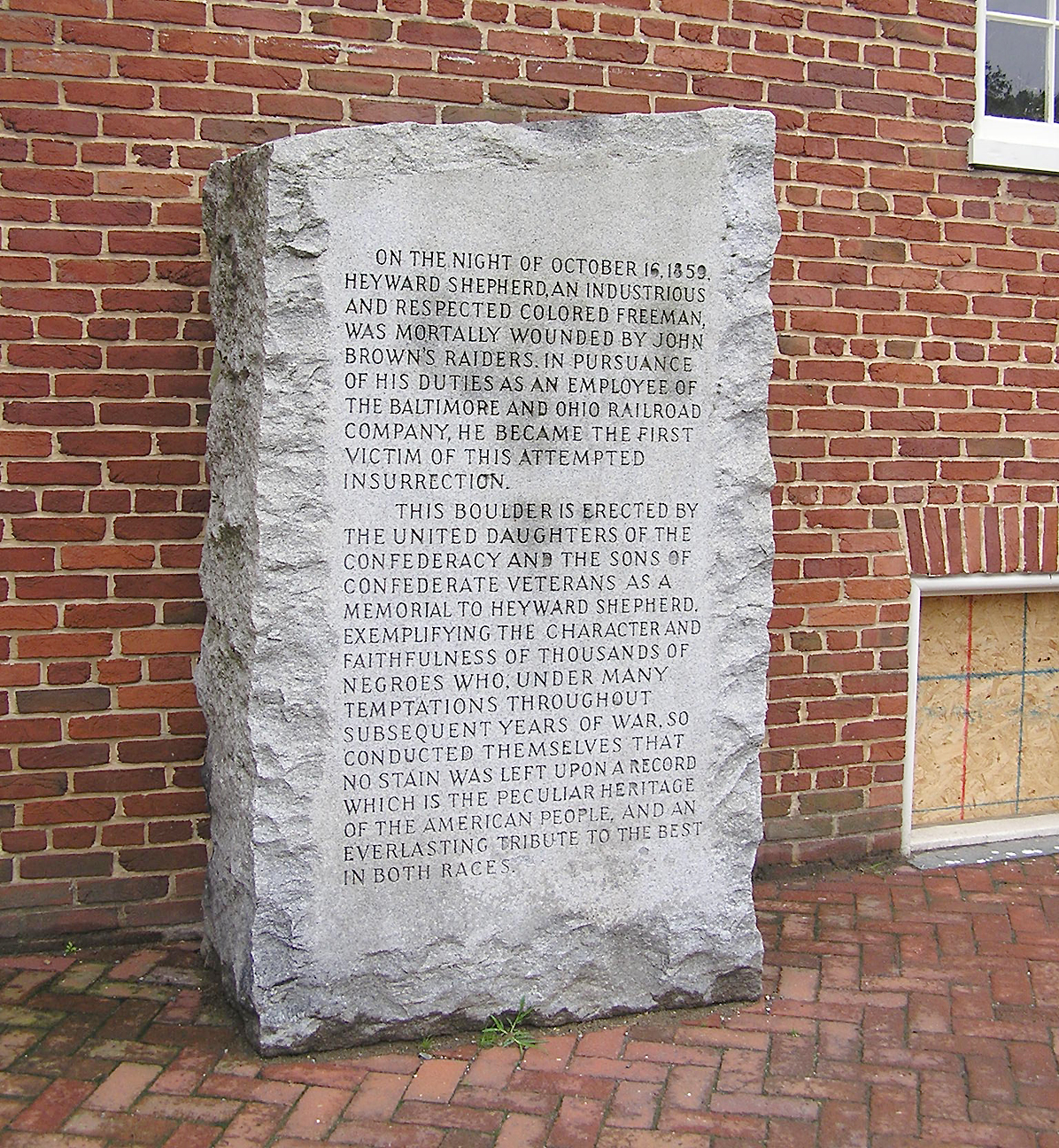 Heyward Shepherd Monument erected by the Sons of Confederate Veterans and the United Daughters of the Confederacy in 1931 on Potomac Street in Harpers Ferry, WV.